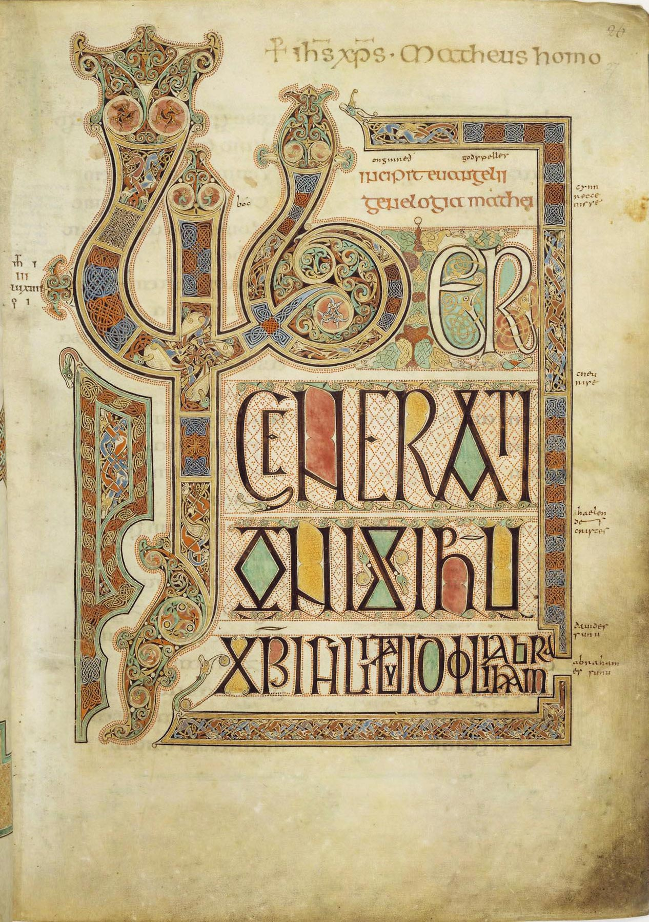 Folio 27r from the Lindisfarne Gospels, Incipit to the Gospel of Matthew. The main text contains the first sentence of the Gospel According to Saint Matthew: "Liber generationis Iesu Christi filii David filii Abraham" (The book of the generation of Jesus Christ, the son of David, the son of Abraham.) The first line contains the word "liber" (the book) with illuminated letters in insular majuscule, the first three letter (lib) are much more ornate than the last two (er) in white. The next two lines are in runic capitals (ie. latin letter in a rune inspired script, also seen in the Book of Nunnaminster for example): the first of these lines partially containts the word "generationis" (generation in genitive case) as "-onis" appears in the next line followed by the contracted form of "Iesu", namely "Ihu" with a tilde on the h. This type of contraction is called a Nomina sacra. The last line is in insular majuscule and begins with another Nomina Sacra, the contraction "χρi" with a tilde meaning "Christi". This is followed by a more compressed series of words. The first is "filii" (son, genetive) with a fi ligature and a letter "l" with two stacked "i" letters on its leg. Then "David" is seen and is formed with a letter "d" with an "a" stacked on a "v" in its Counter followed by "id". After that, "filii" is present again, this time however the fi ligature is replaced with the Greek letter phi (φ) given its name (note that son in Greek is υἱός, ie. unrelated). The last word is "Abraham" which is split into two lines.